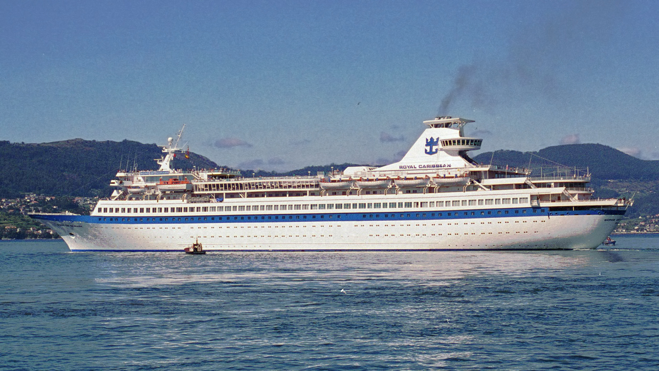 MS Song of Norway leaving Vigo, Spain on 19 September 1994.